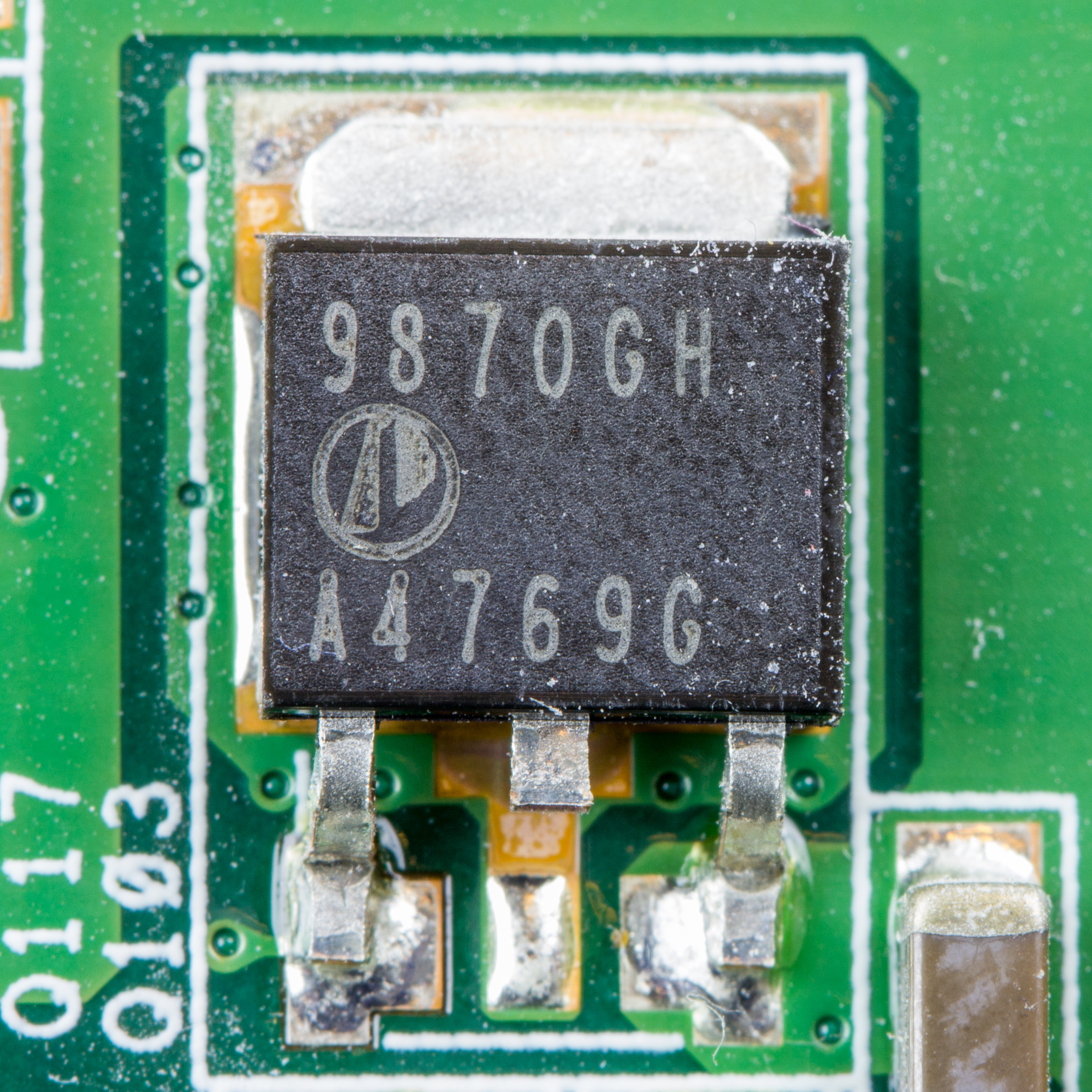 Cisco EPC3212 - Advanced Power Electronics 9870GH - N-Channel Enhancement Mode Power MOSFET. Package: TO-252